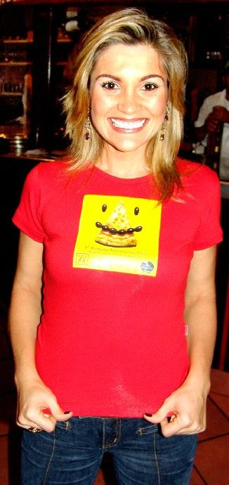 Brazilian actress Flávia Alessandra.FLAVIA ALESSANDRA - Actress